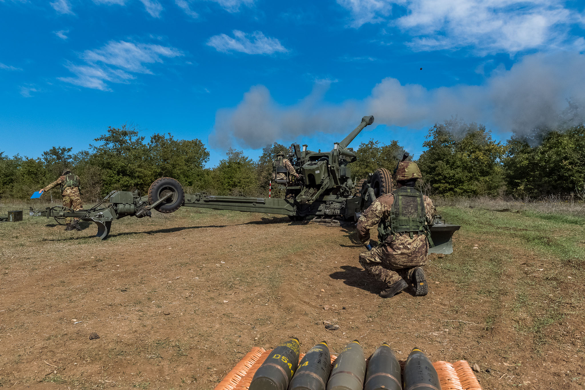 Italian Army 3rd Field Artillery Regiment (Mountain) FH70 howitzer firing